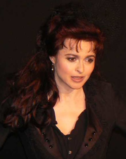 Helena Bonham Carter at 26th Santa Barbara International Film Festival.